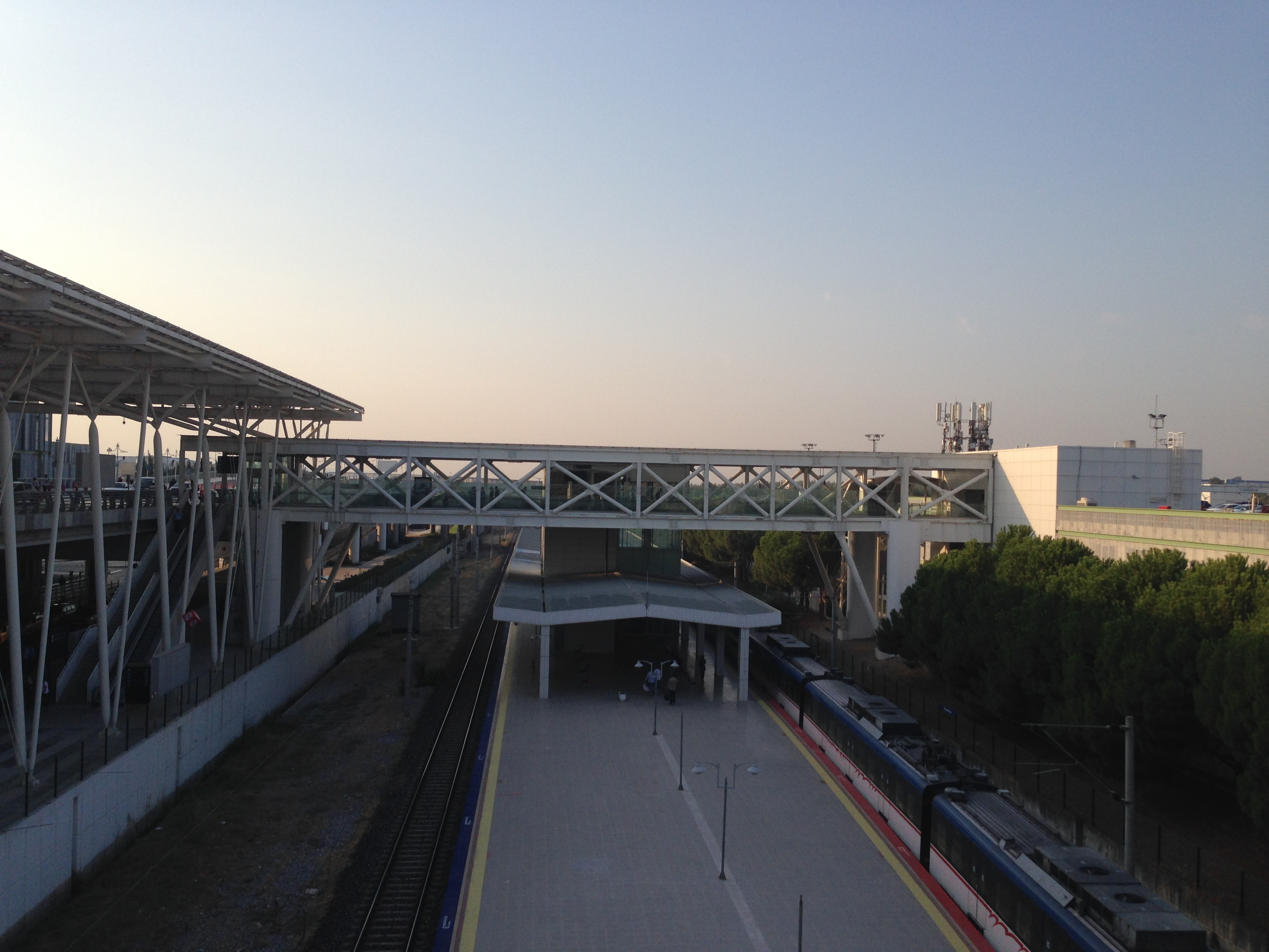 A southbound IZBAN commuter train at Adnan Menderes Airport station.